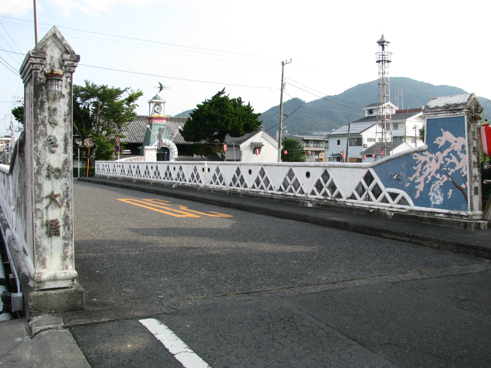 The Tokiwa-ohashi is decorated with plaster, located in Matsuzaki, Kamo, Shizuoka, Japan.